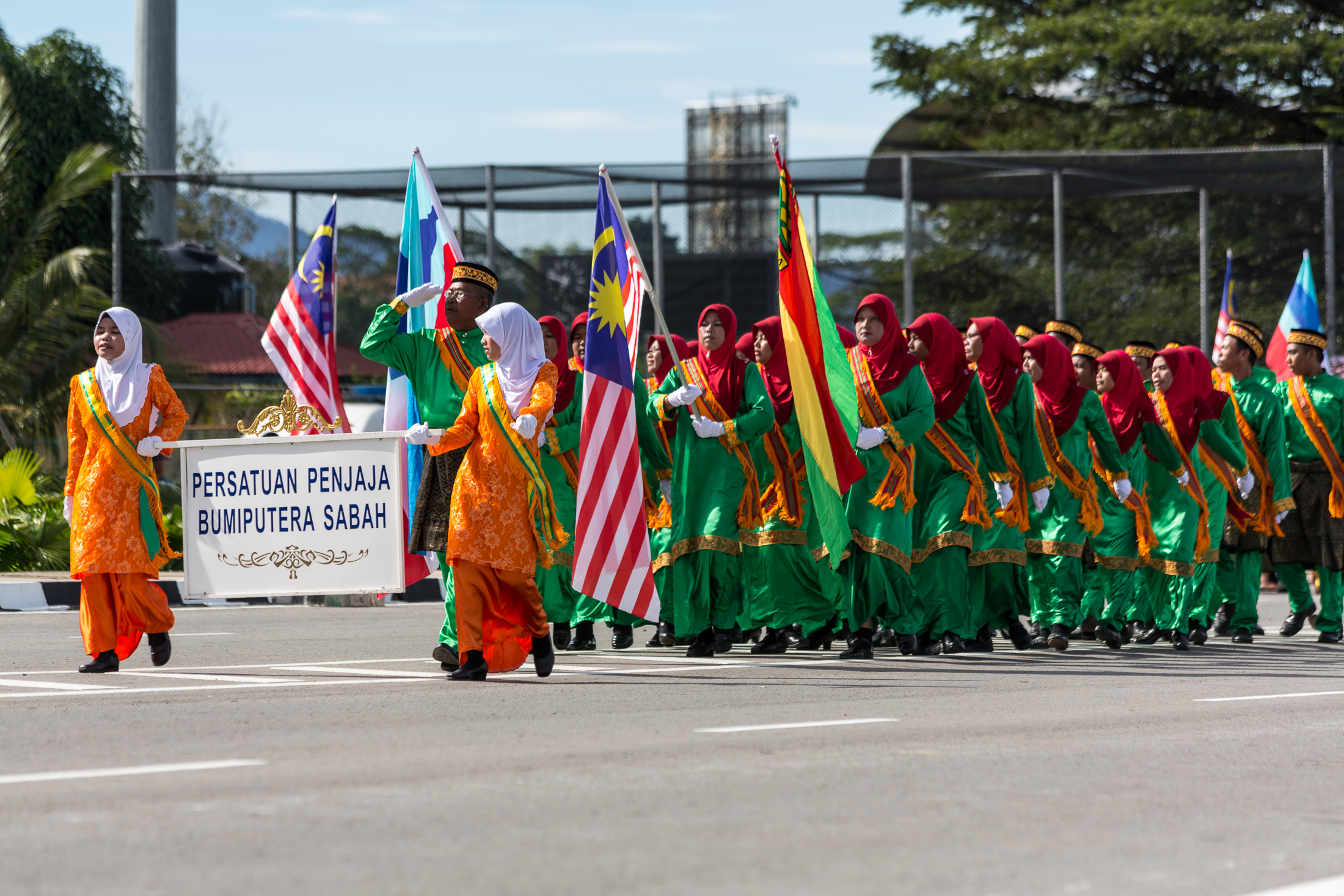 Kota Kinabalu, Sabah, Malaysia: Parade during Celebrations of Hari Merdeka 2013 in Likas on August 31, 2013